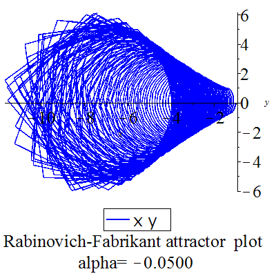 Rabinovich Fabricant xy plot alpha=-0.05